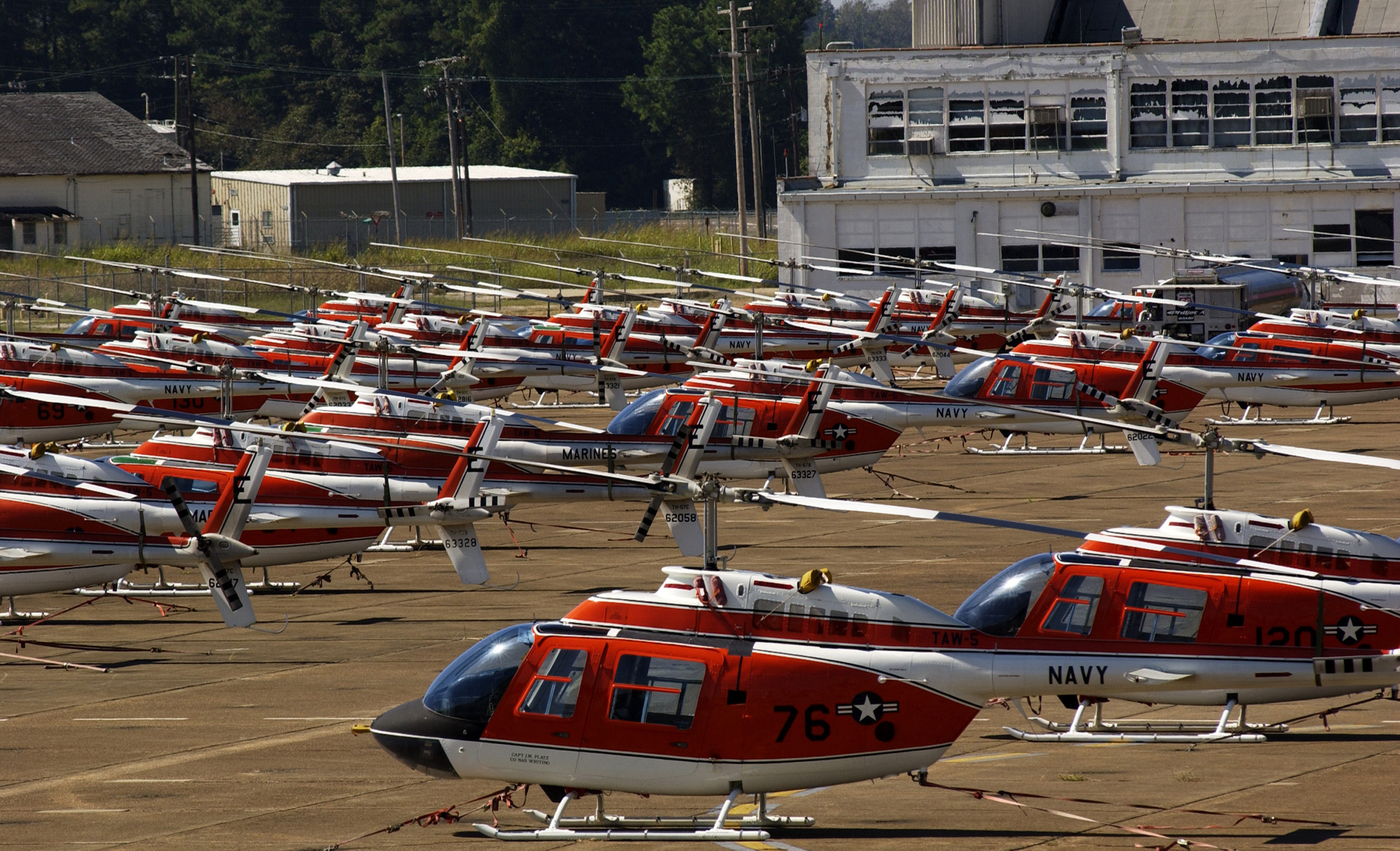 Millington, Tenn. (Sept. 15, 2004) - TH-57 Sea Ranger helicopters sit on the flight line at Millington Municipal Airport. Pilots assigned to Training Air Wing Five (TAW-5), stationed at Naval Air Station Whiting Field, Fla., flew approximately 300 training aircraft to Millington to keep them safe from Hurricane Ivan. Ivan made landfall at Gulf Shores, Ala., at approximately 0315 EST with winds of 130 MPH. Twelve deaths are blamed on Ivan as it came ashore. U.S. Navy photo by Photographer's Mate 3rd Class Joseph M. Buliavac (RELEASED)